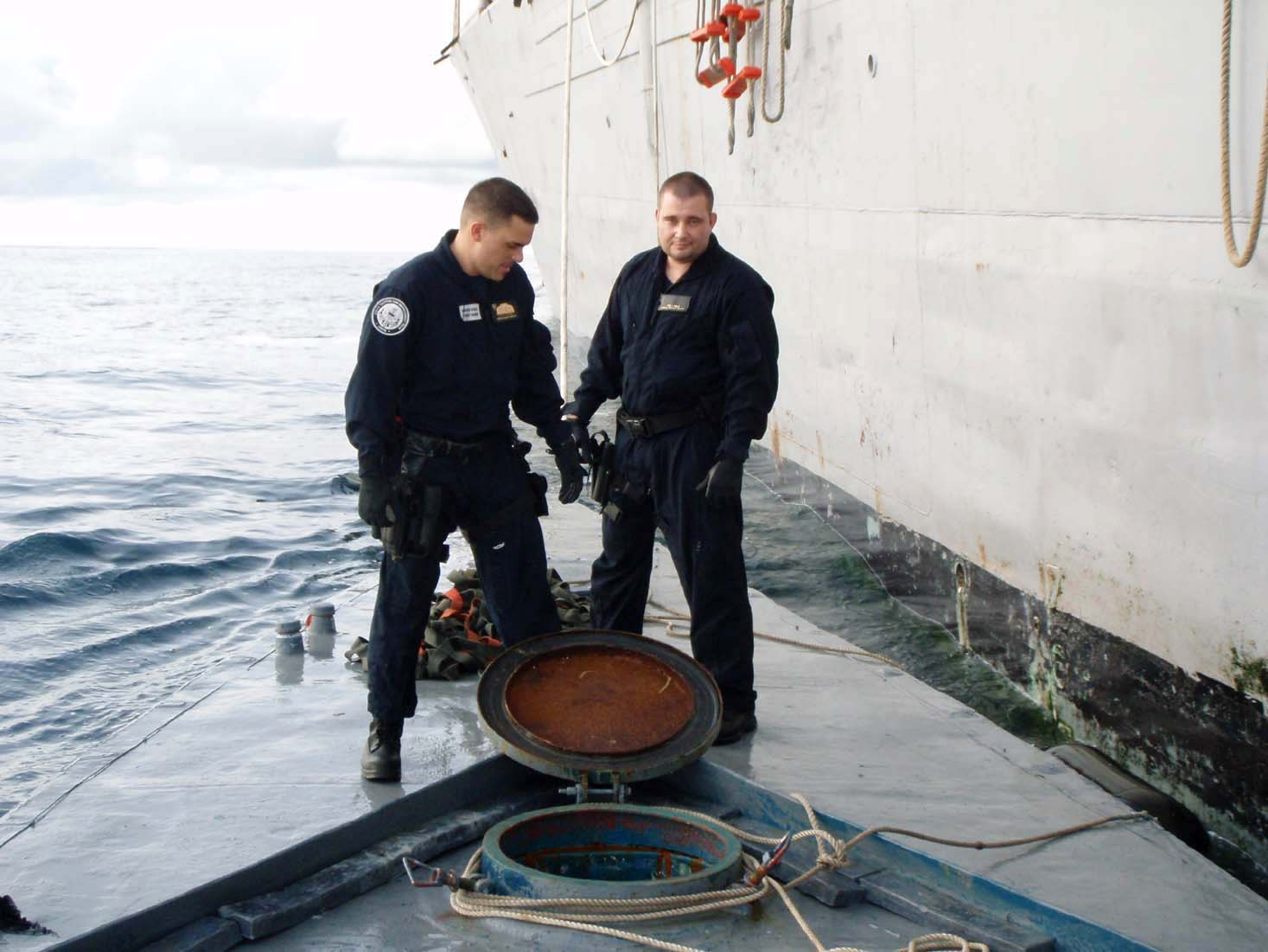 In this photo released by the U.S. Coast Guard, members of Coast Guard law enforcement detachment 404 survey the deck of the self-propelled, semi-submersible craft they seized on Saturday, Sept. 13, 2008. The LEDET, embarked aboard the USS McInerney (seen to the left of the SPSS), seized seven tons of cocaine from the vessel. The estimated street value of the cocaine is more than $187 million. The seized vessel has the capability to travel from Ecuador to San Diego, Calif., without having to stop for replenishment.